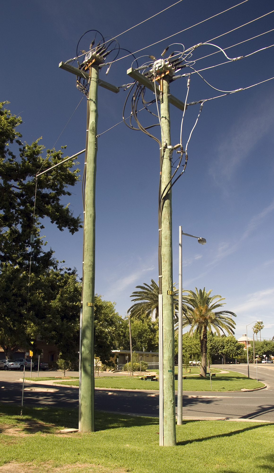 Dead end riser poles. Photographed in Wagga Wagga, New South Wales, Australia.